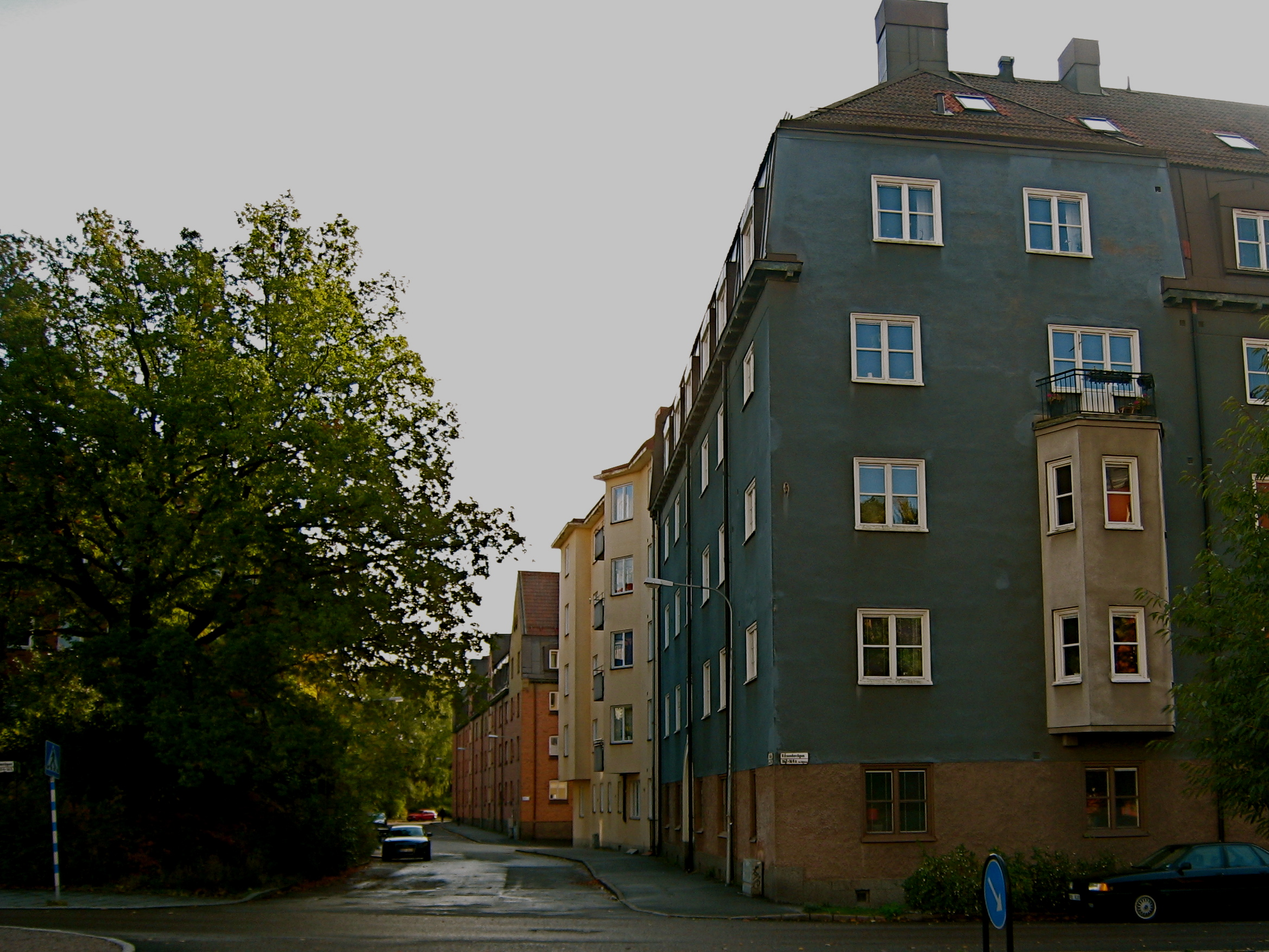 Kvarteret Björken och Boken sett från Råsundavägen